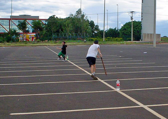 Backyard cricket